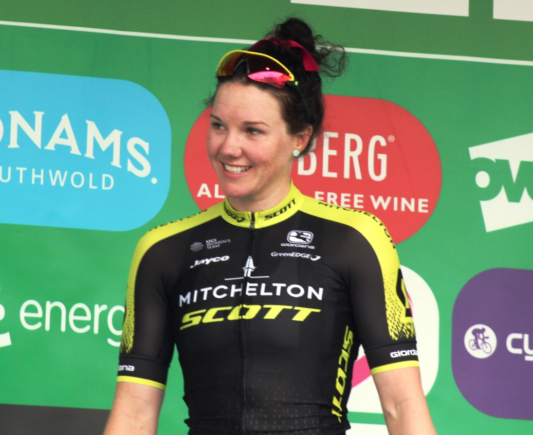 Sarah Roy, winner of stage 3 of the 2018 Women's Tour which finished in Royal Lemaington Spa.